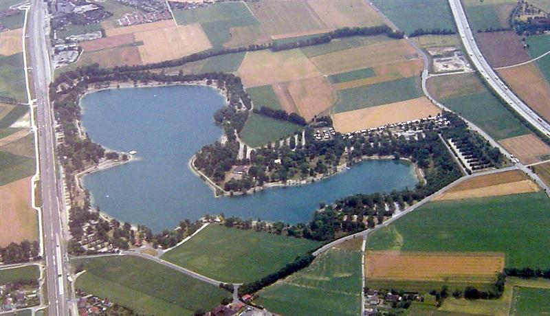 Lake Pichling, Pichlig, Upper Austria